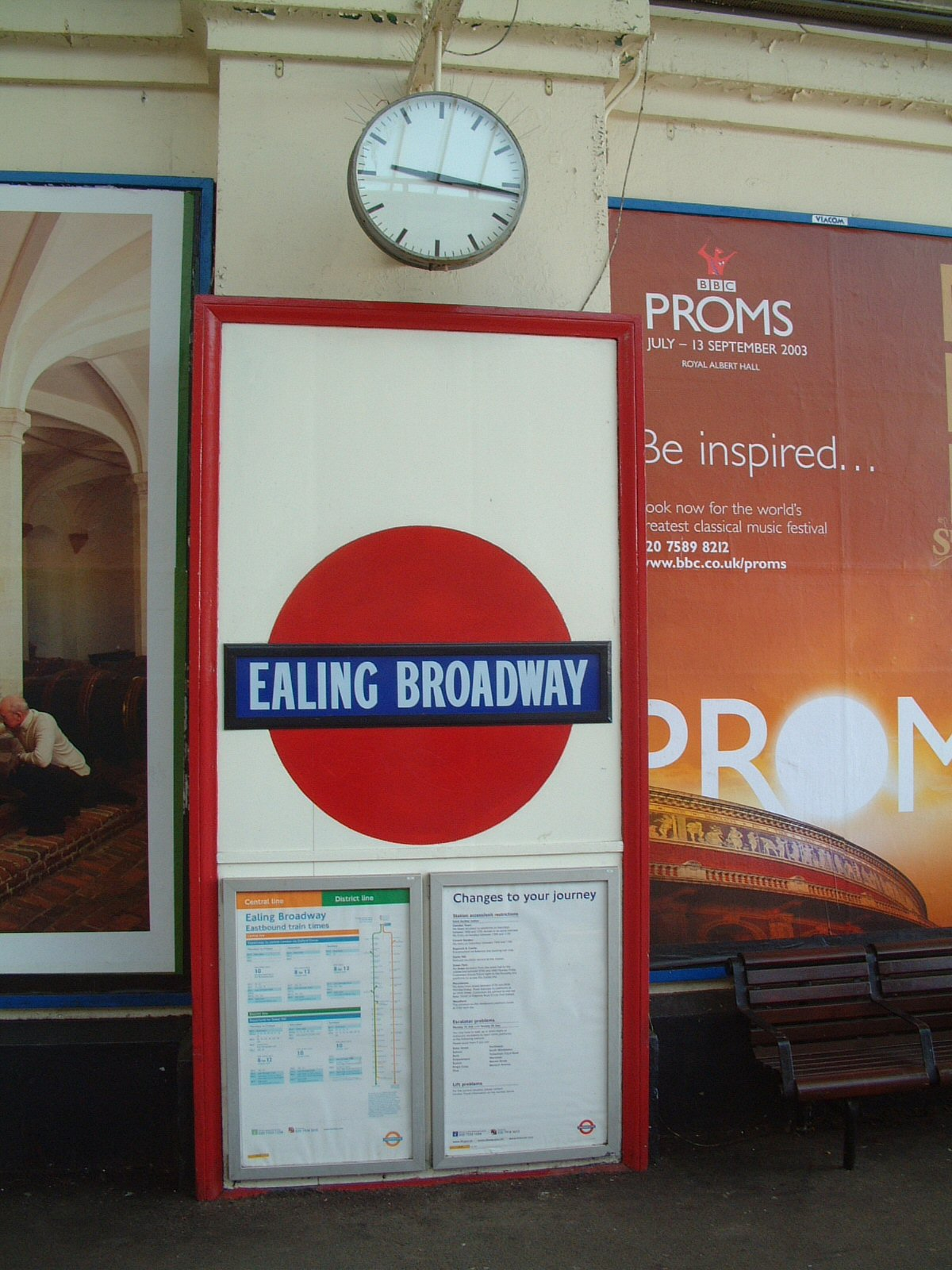 Ealing Broadway - District Line